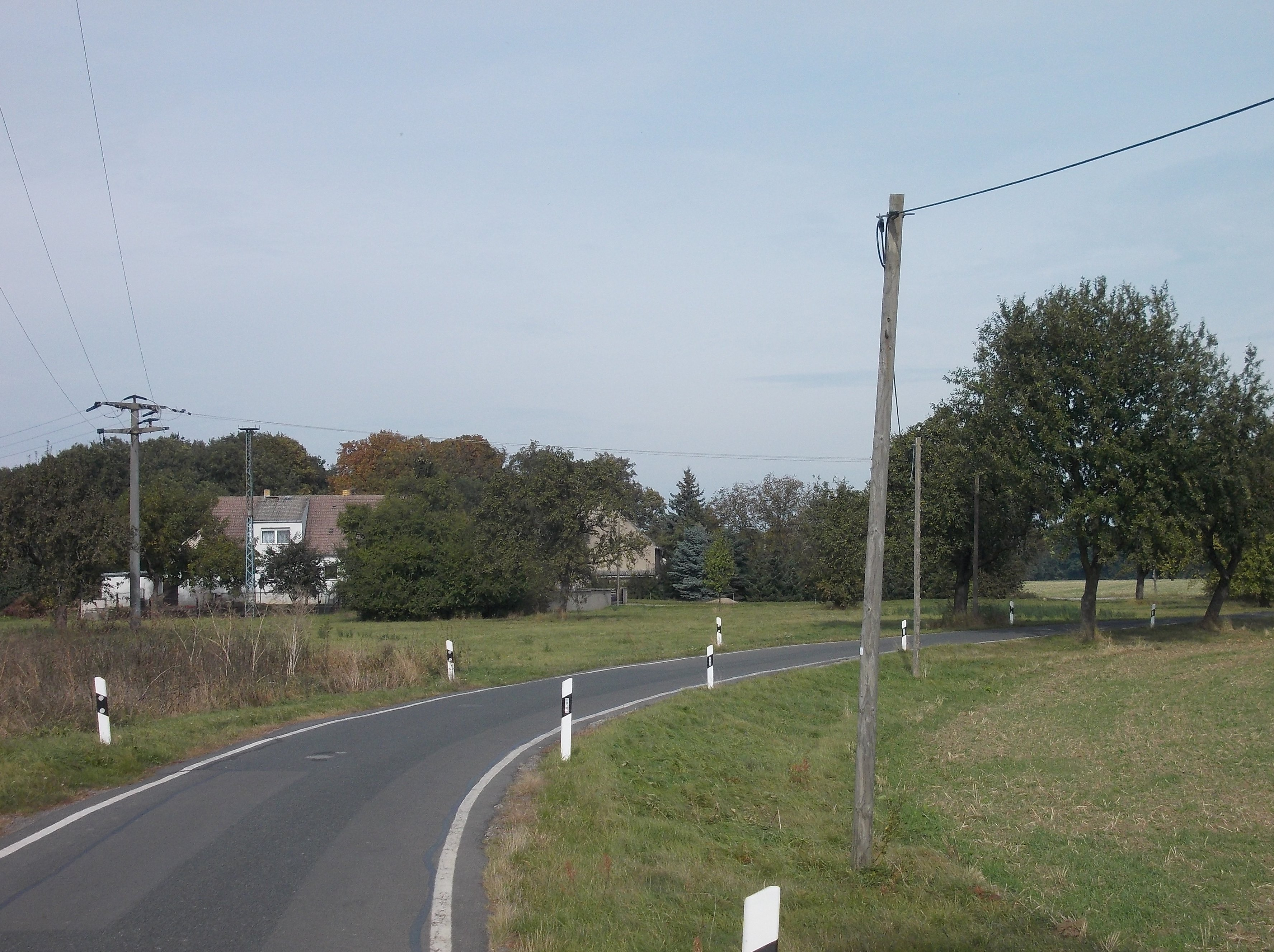 Piestel estate near Kamitz (Arzberg, Nordsachsen district, Saxony)